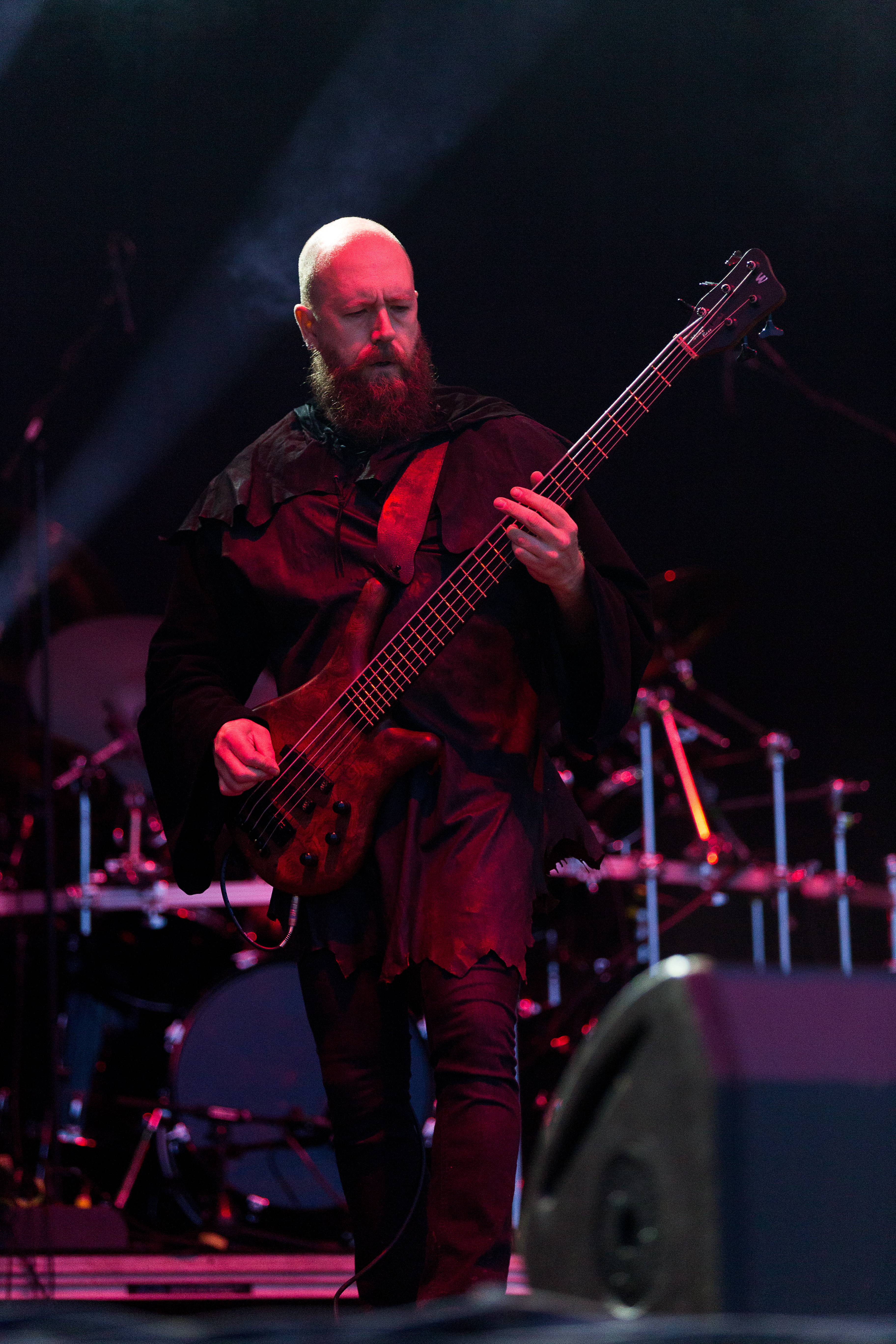 The Norwegian black metal band Arcturus at the Party.San Metal Open Air 2016 in Obermehler-Schlotheim/Germany